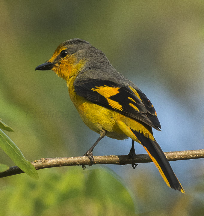 Long-tailed Minivet fem - Arunachal Pradesh - IndiaFJ0A7490